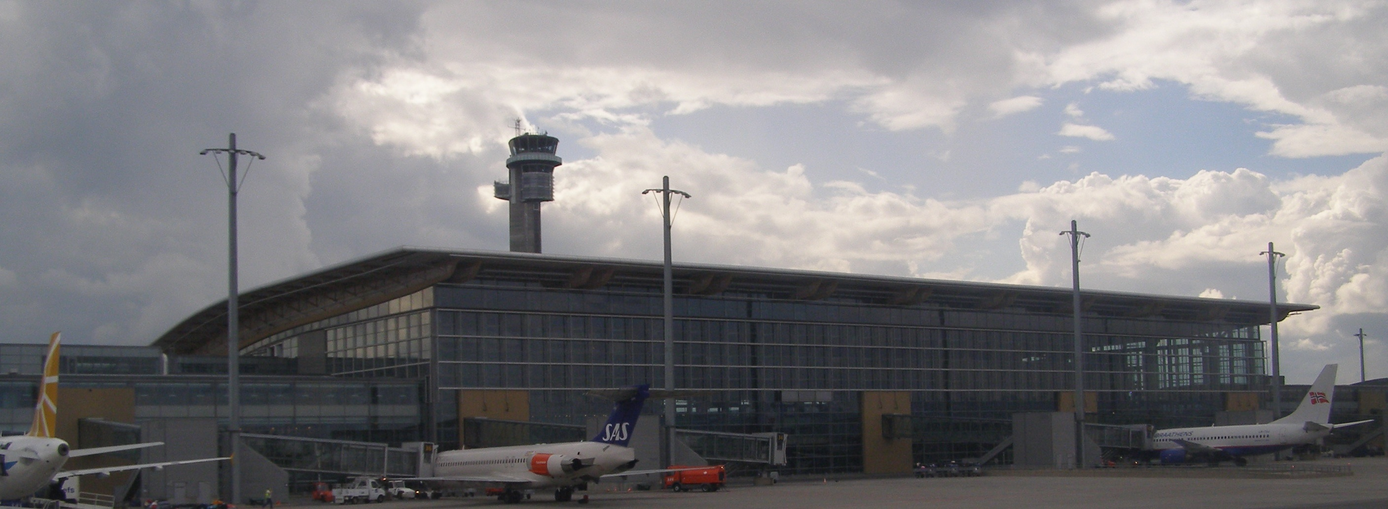 Oslo Airport, Gardermoen